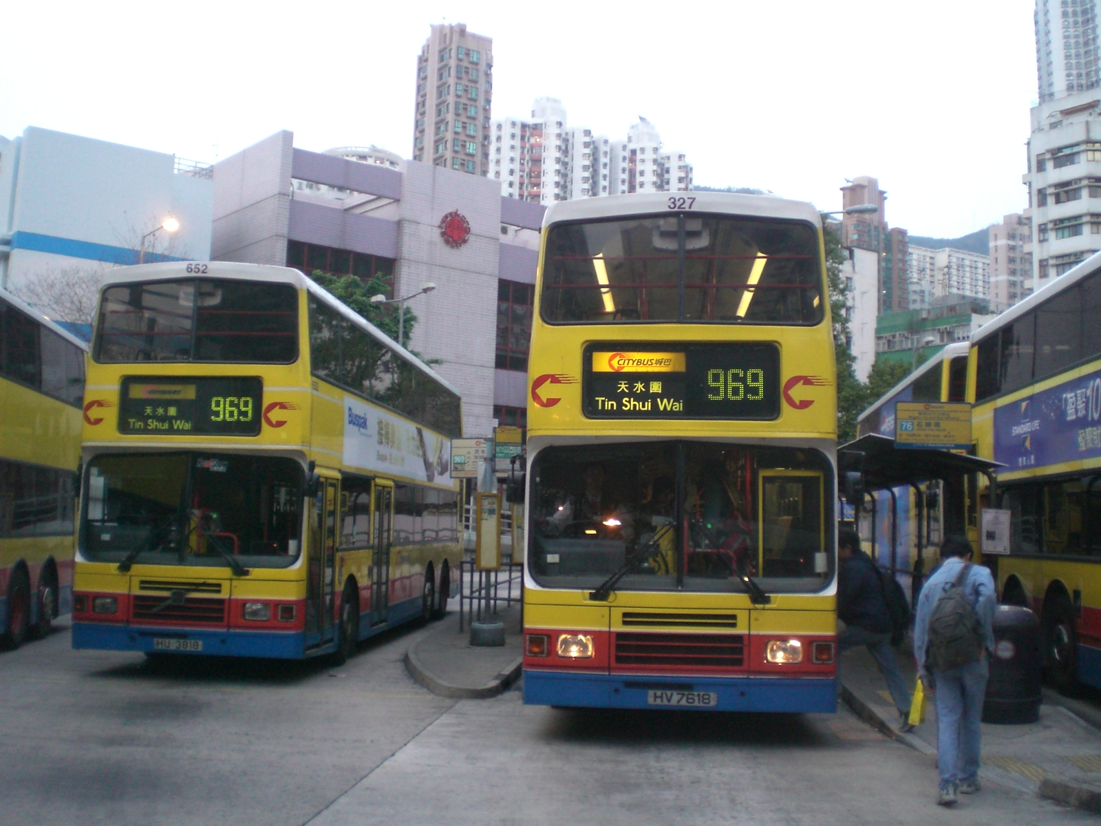 A view of Causeway Bay (Moreton Terrace) Bus Terminus, Hong Kong